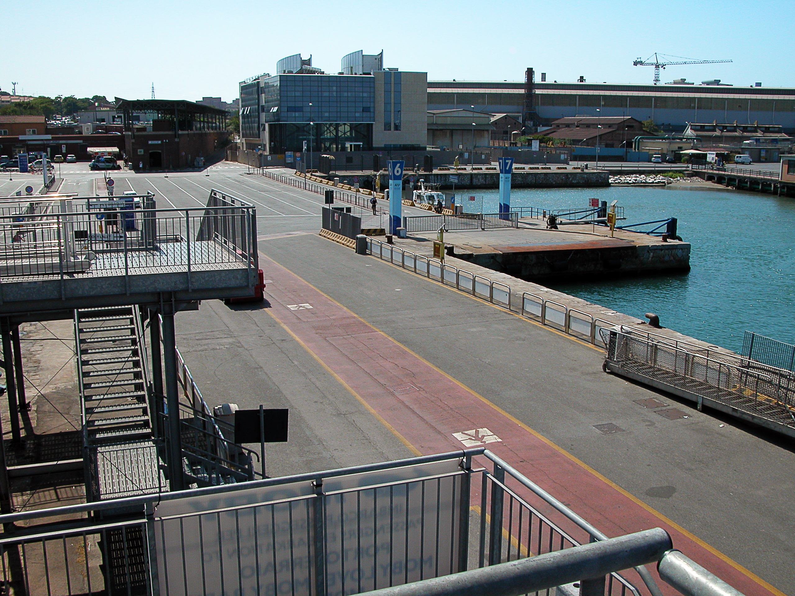 Station and harbour at Piombino Marina